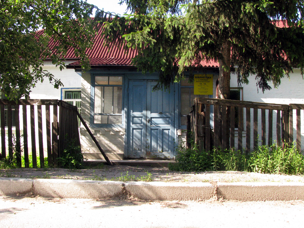 Library in Pirnove, Kyiv Oblast, Ukraine